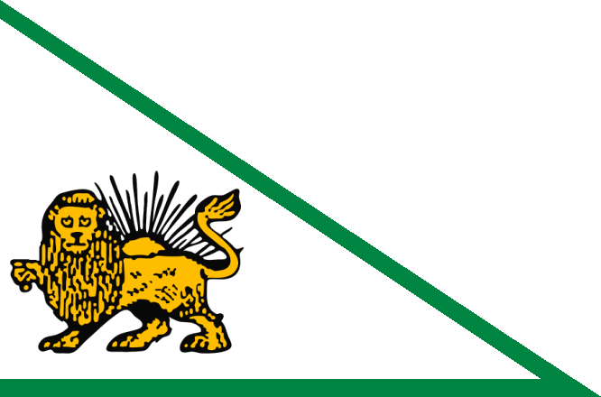 Flag of the Zand Dynasty